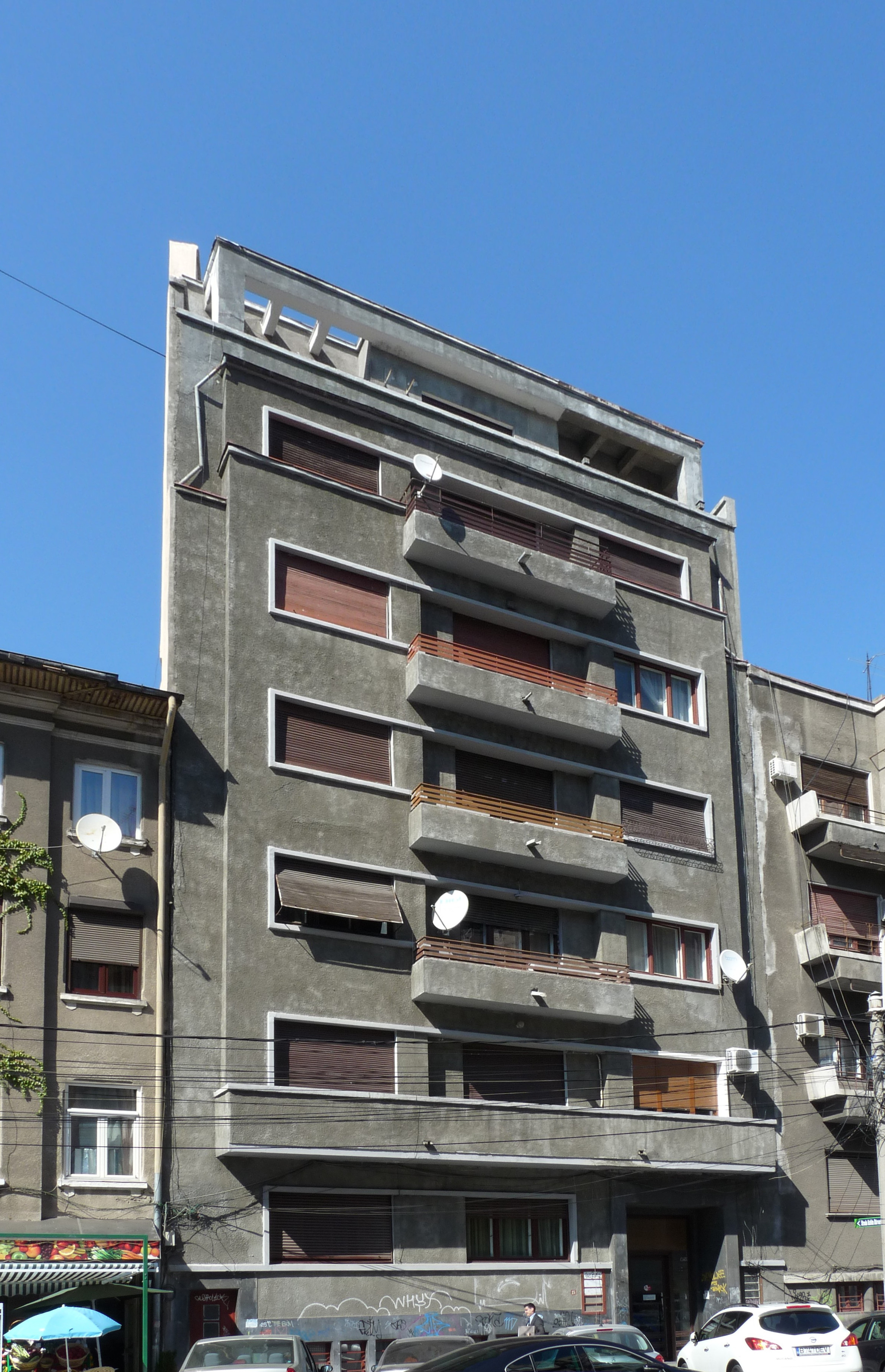 Building from Maria Rosetti street 15 in Bucharest, RomaniaRomână: Imobil monument istoric de pe strada Maria Rosetti nr. 15, București, România